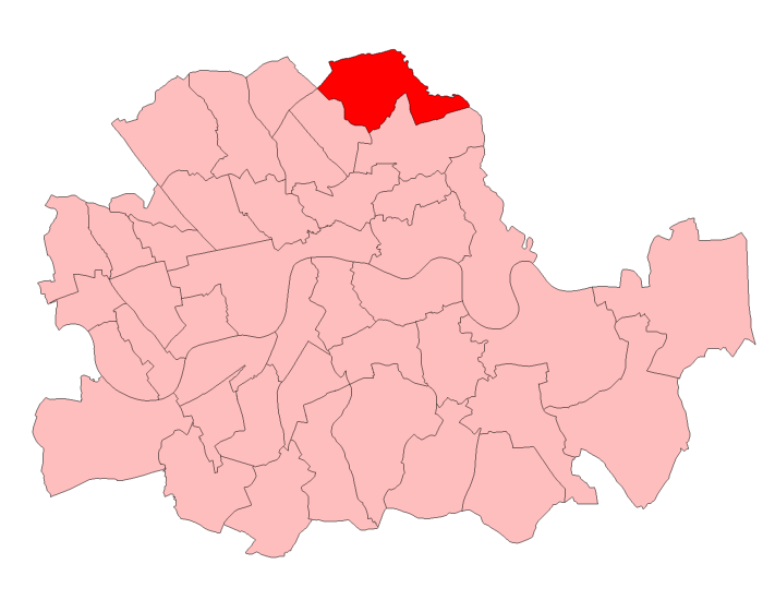 A map of Stoke Newington and Hackney North constituency within the London County Council area, as it existed from 1950 to 1955.